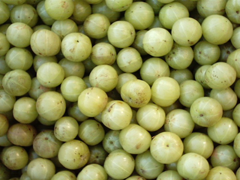 Indian Gooseberrys , Scientific name Emblica officinalis or Phyllanthus emblica